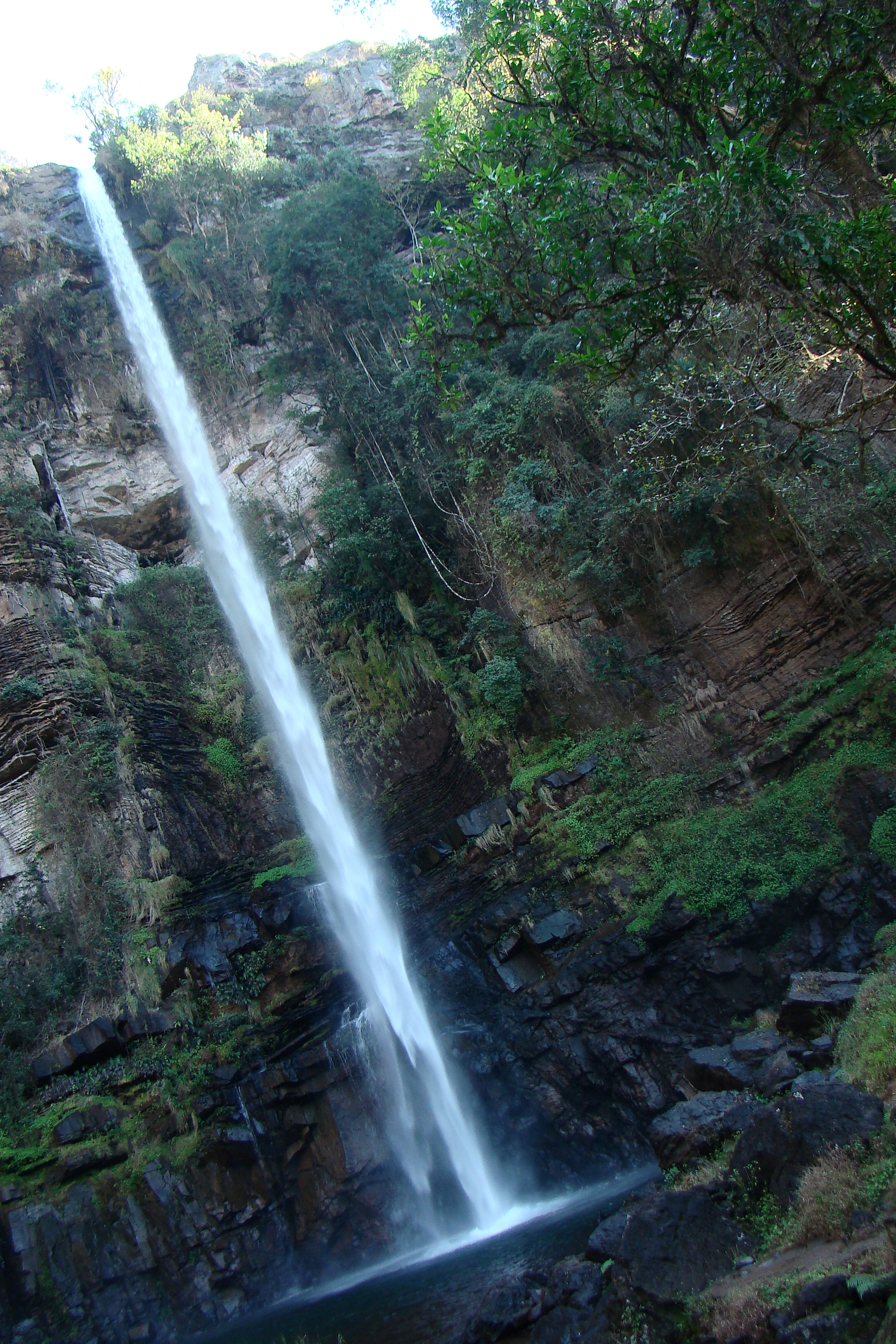 Lone Creek Falls, in the Blyde River Canyon area, South Africa.